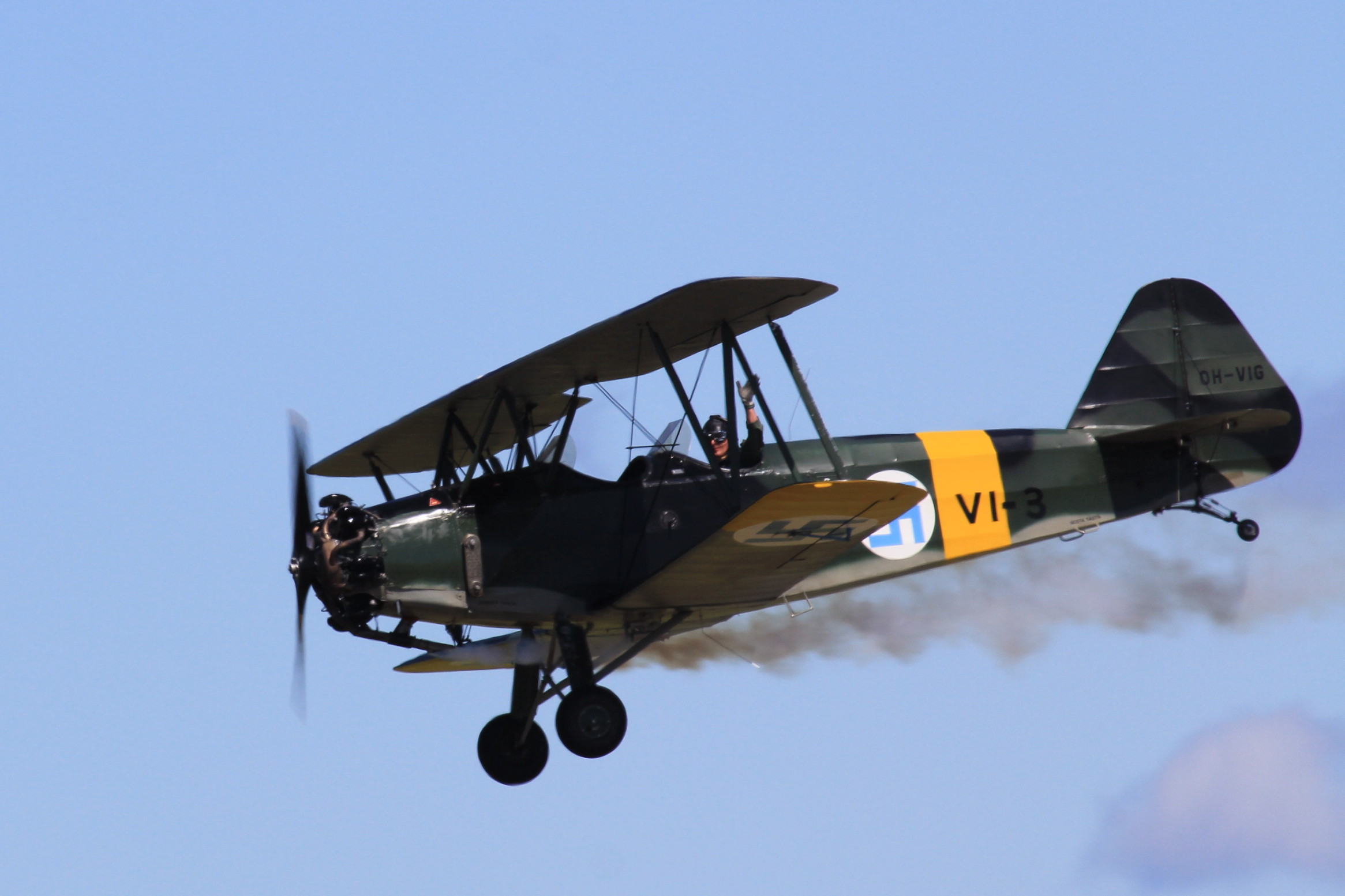 VL Viima II, OH-VIG (VL-3) military biplane trainer aircraft, Turku Airshow 2019, Turku, Finland. - Pilot: Sami Saikkonen.